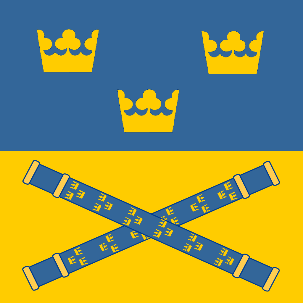 The Command Sign used by the Swedish SUpreme Commander.